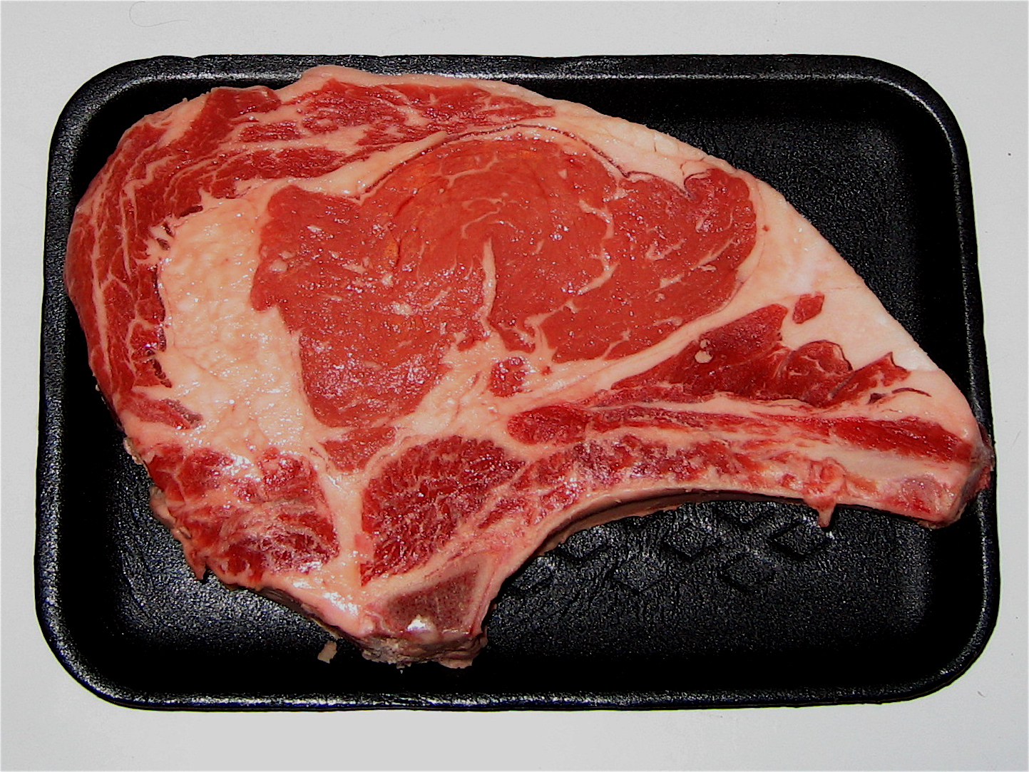 USDA Choice bone-in rib steak. Photograph made by Michael C. Berch (User:MCB) on 2007-03-22 and released under free license CC-BY-SA 2.5.